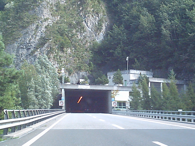 Kerenzerberg Tunnel in Switzerland. DF08 (English) 2004 image.